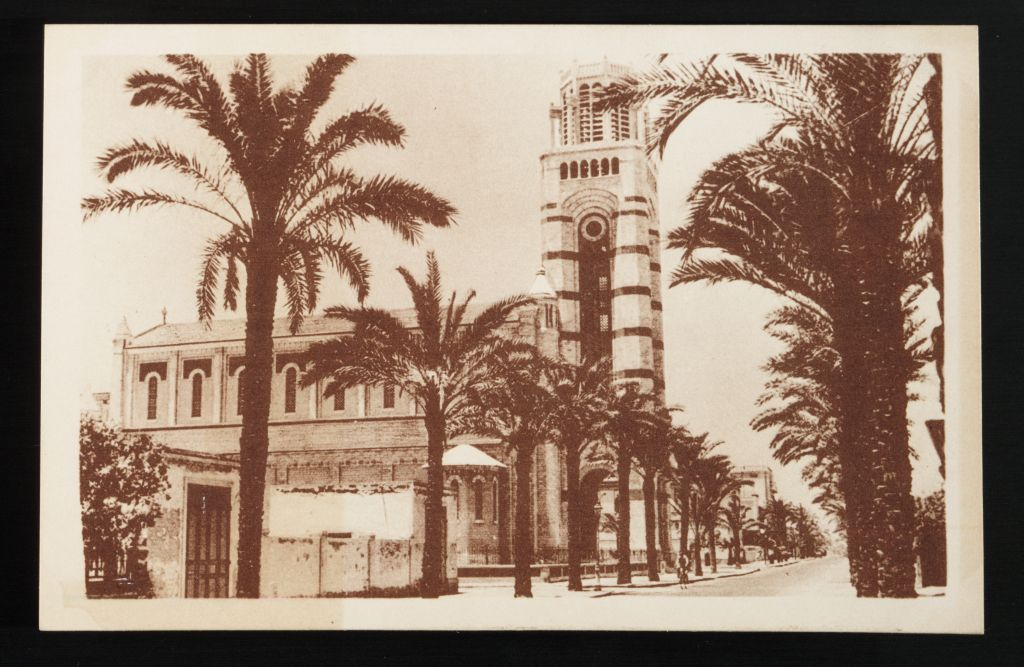 The French Cathedral Notre-Dame-Marie-Reine-du-Monde and Kitchner Street, Port-Saïd